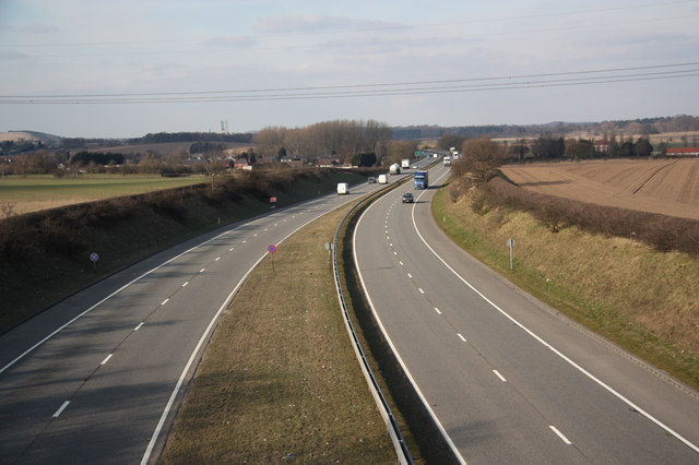 A1 north View of the A1 at Blyth